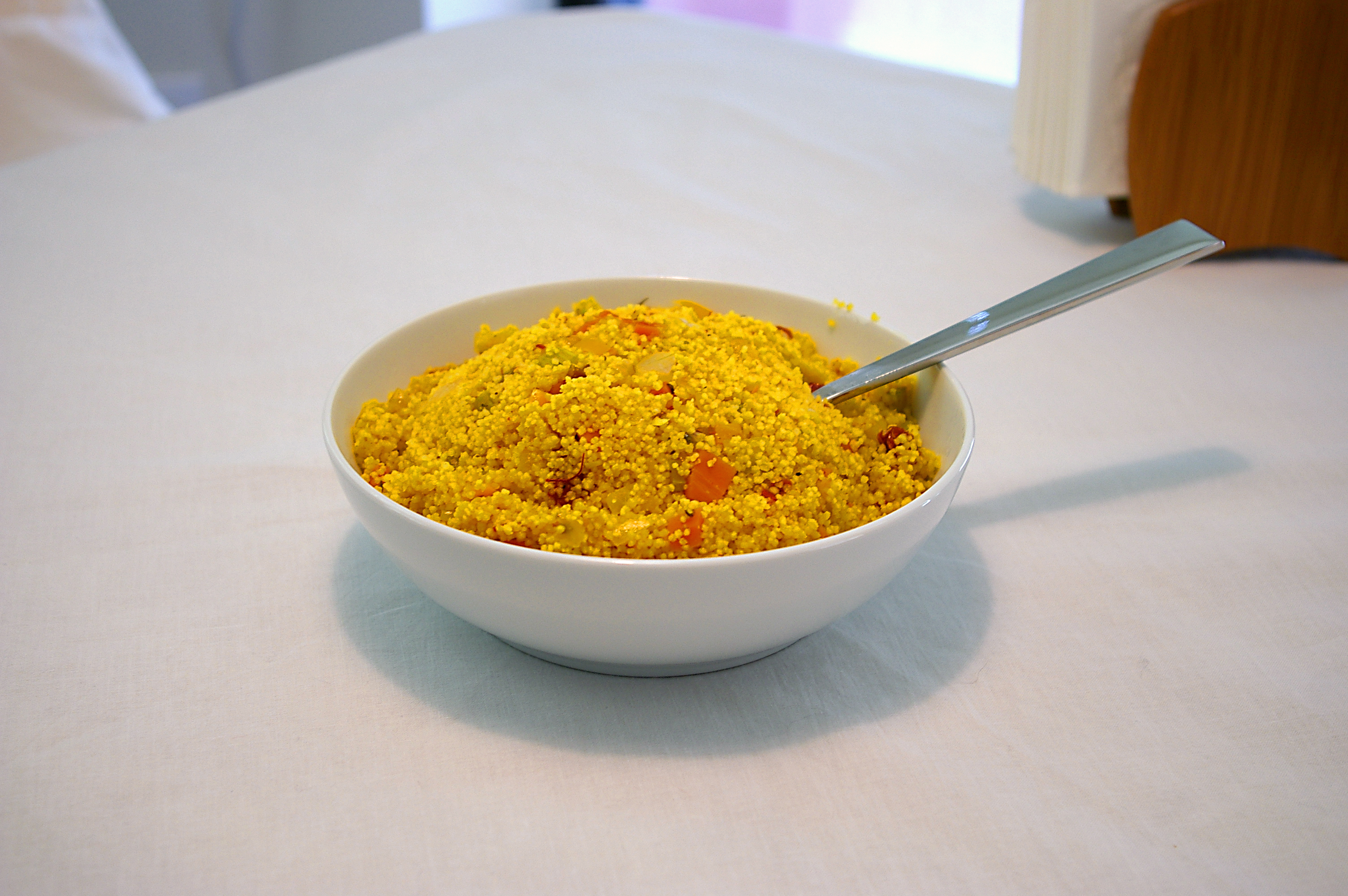 My new comfort food. Curried couscous with saffron, peppers, and sundried tomatoes.